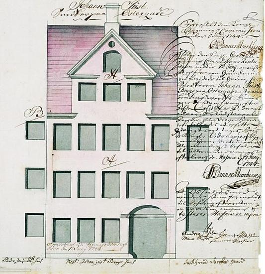 Rendering to one of the so-called "ildebrandshuse" ("fire houses" that was built in large numbers after the Copenhagen Fire of 1728. This one was for Østergade and was designed by Johan Cornelius Krieger.